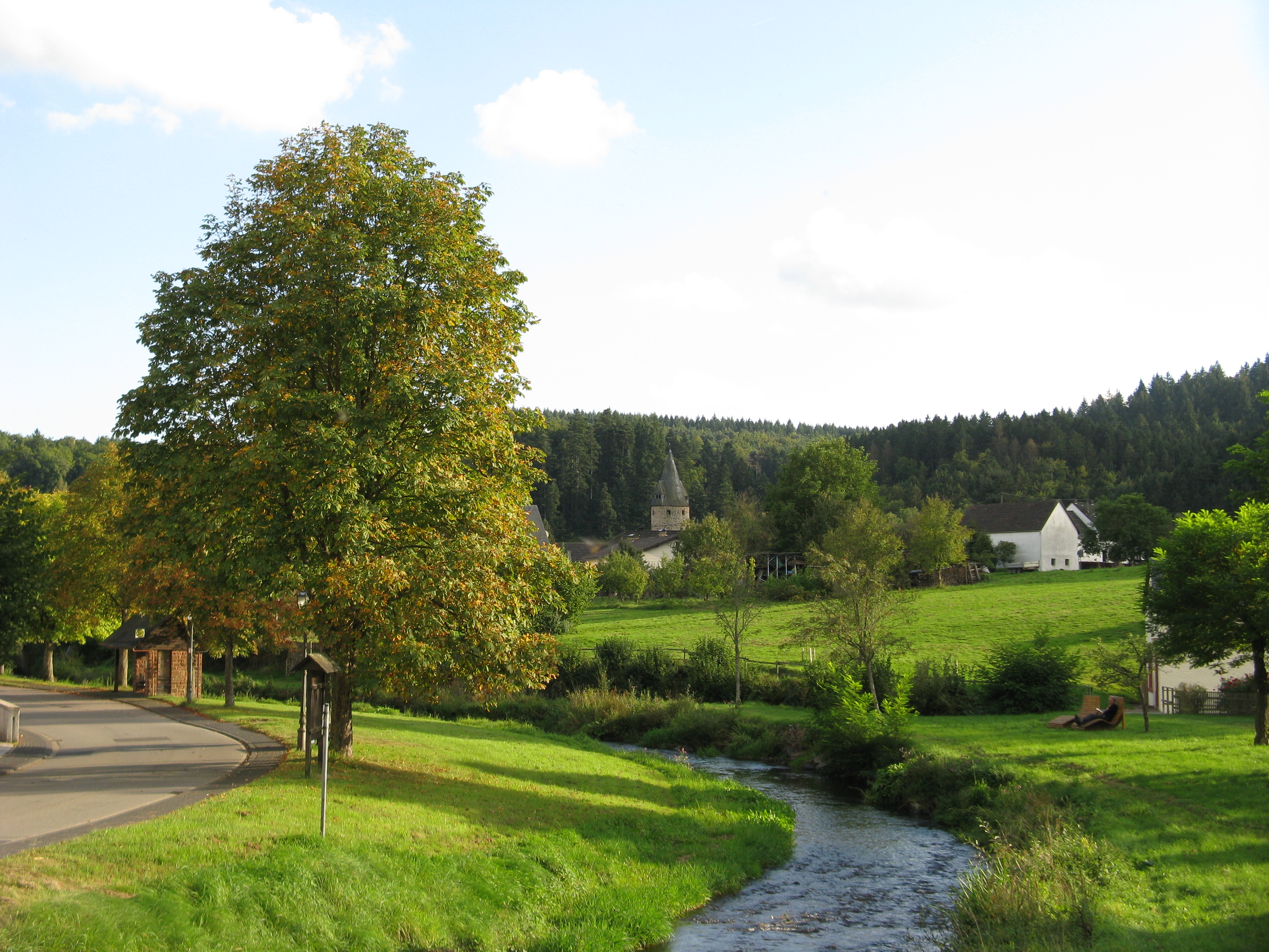 River Salm in Bruch (Eifel), Rhineland-Palatinate, Germany; on the right the Eifelsteig